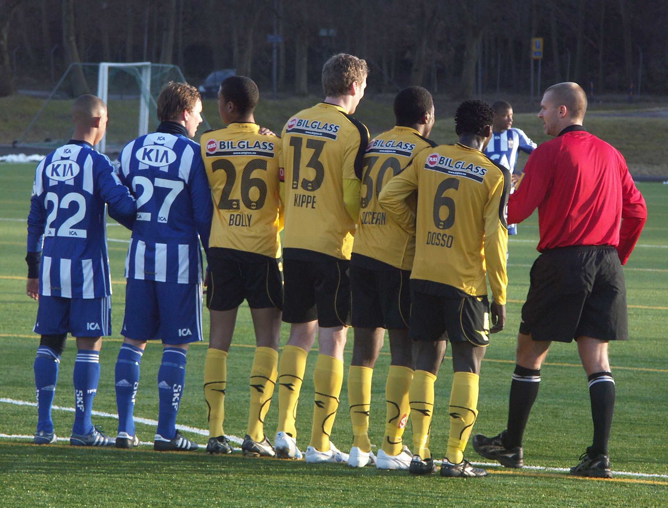 Swedish referee Michael Lerjéus setting the wall straight before a free kick for IFK Göteborg in a friendlly game against Norwegian team Lillestrøm at Backavallen in Göteborg, Sweden on March 28th, 2009.